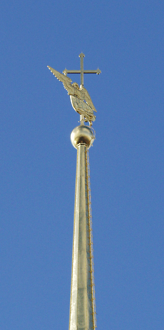 The angel and cross at the very top of Peter and Paul Cathedral in Saint Petersburg, Russia.